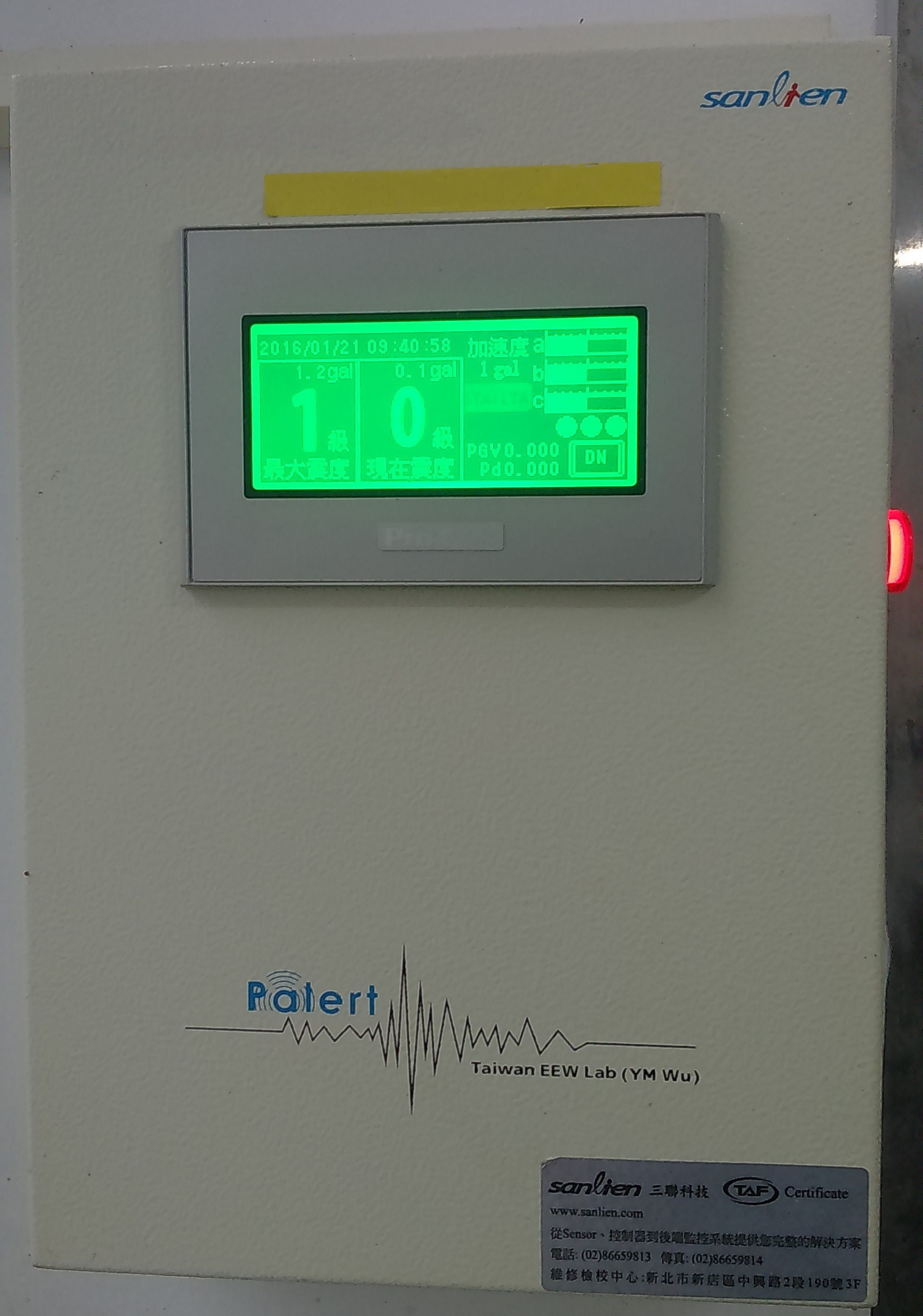 Seismic Warning Apparatus with Touch Screen